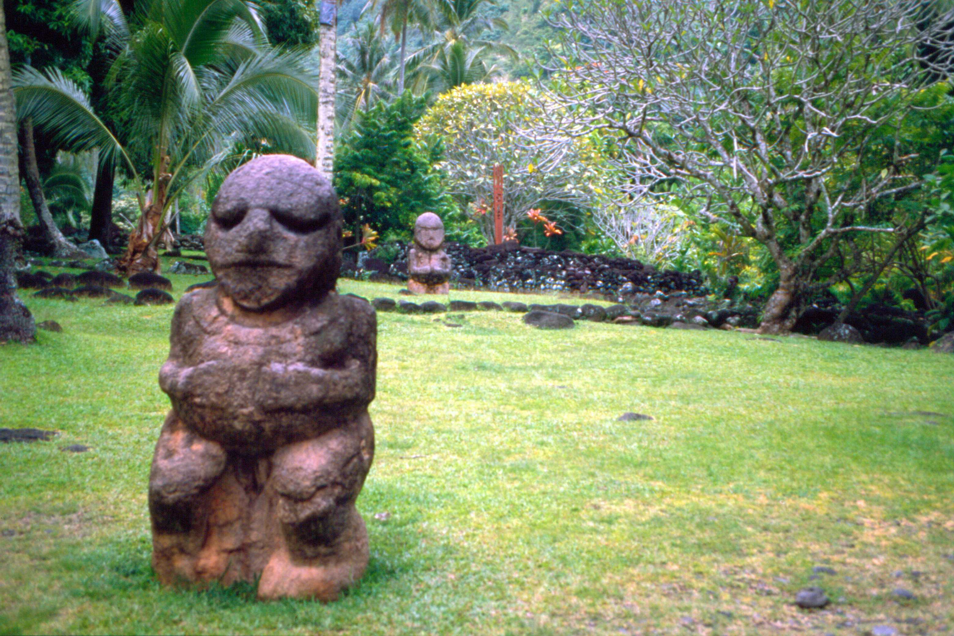 Stone sculptures at marae Arahurahu, Tahiti, French-Polynesia